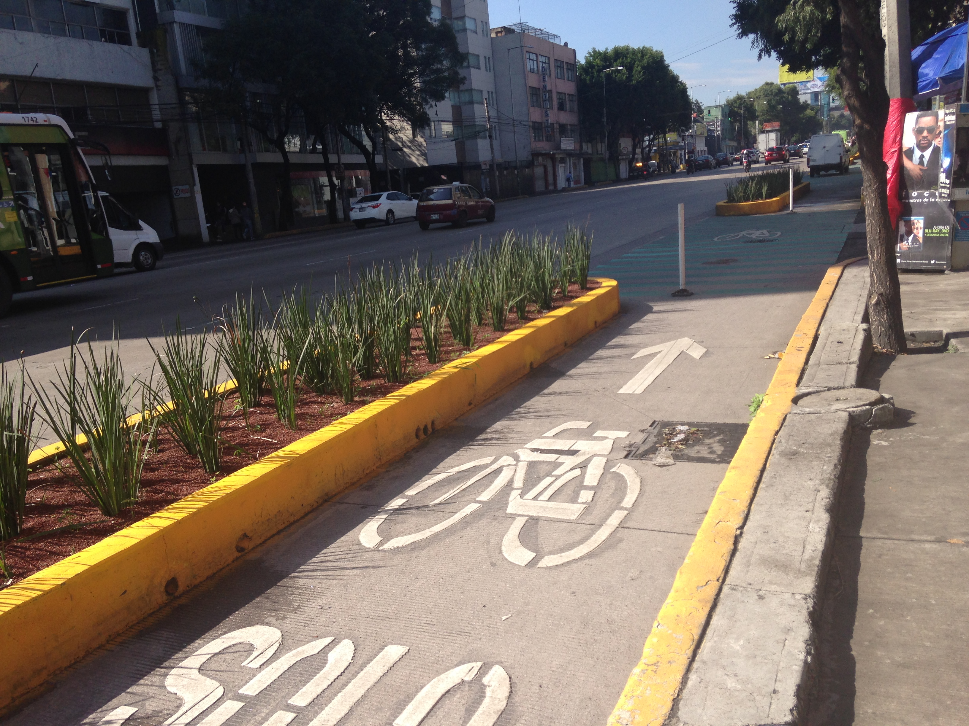 Bikelane in Avenida Revolución, Mexico City.